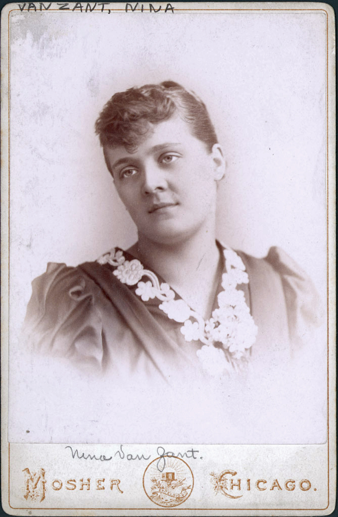 Portrait photograph of Nina Stuart van Zandt, later the wife of anarchist August Spies. 1 photographic print on cabinet card: albumen; 6 1/2 x 4 1/4 in.